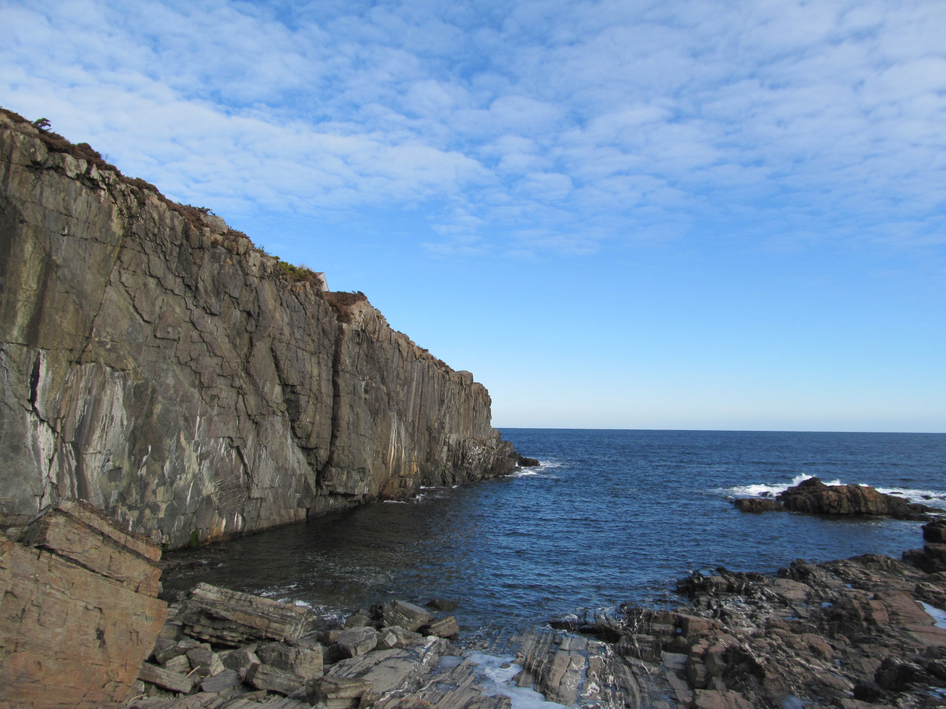 Bald Head Cliff, Bald Head Maine